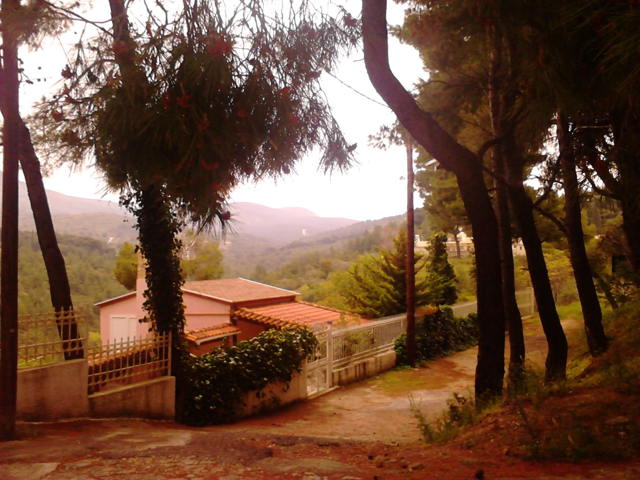 Acharnes, Greece